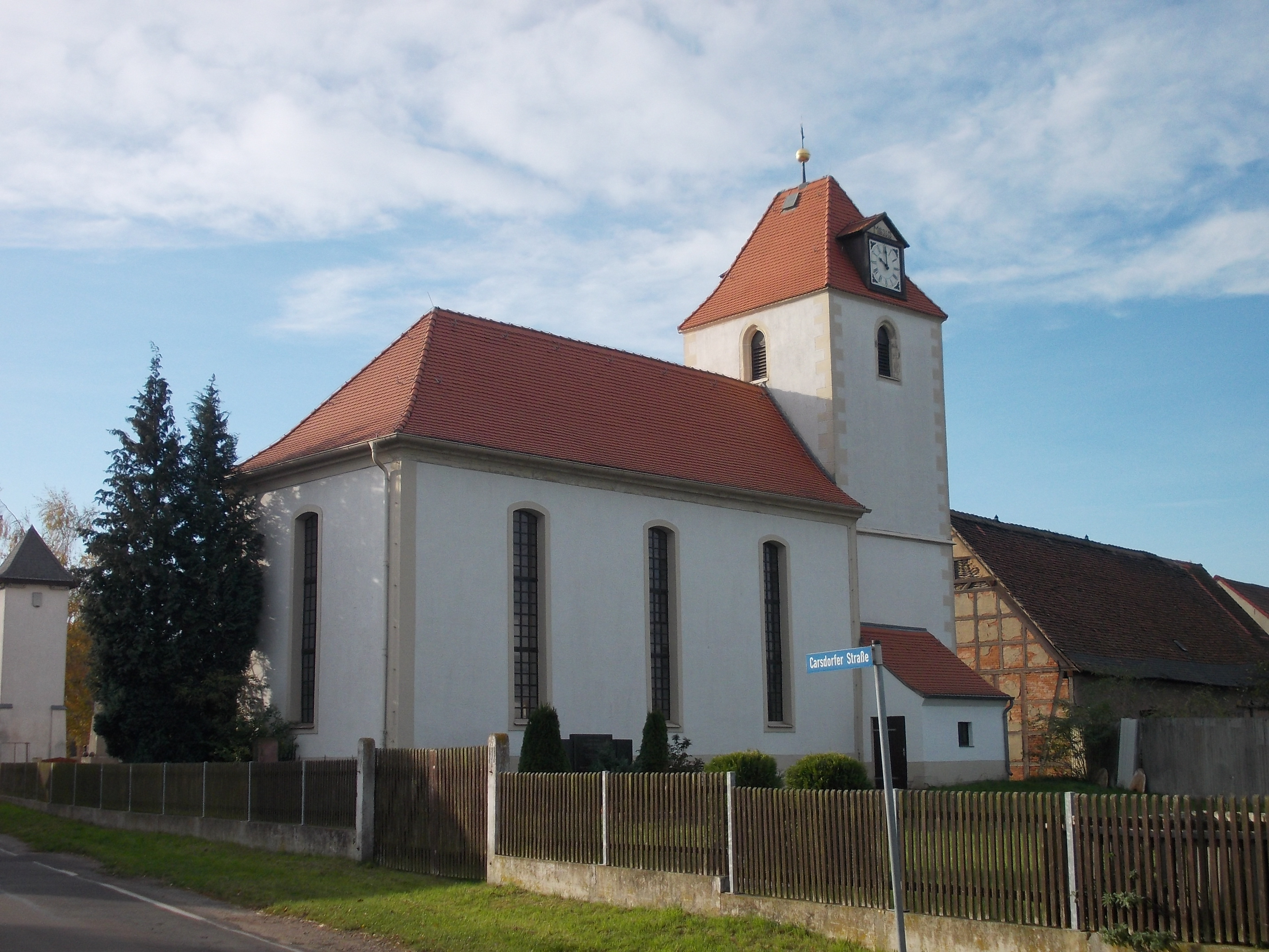 Tellschütz church (Zwenkau, Leipzig district, Saxony)